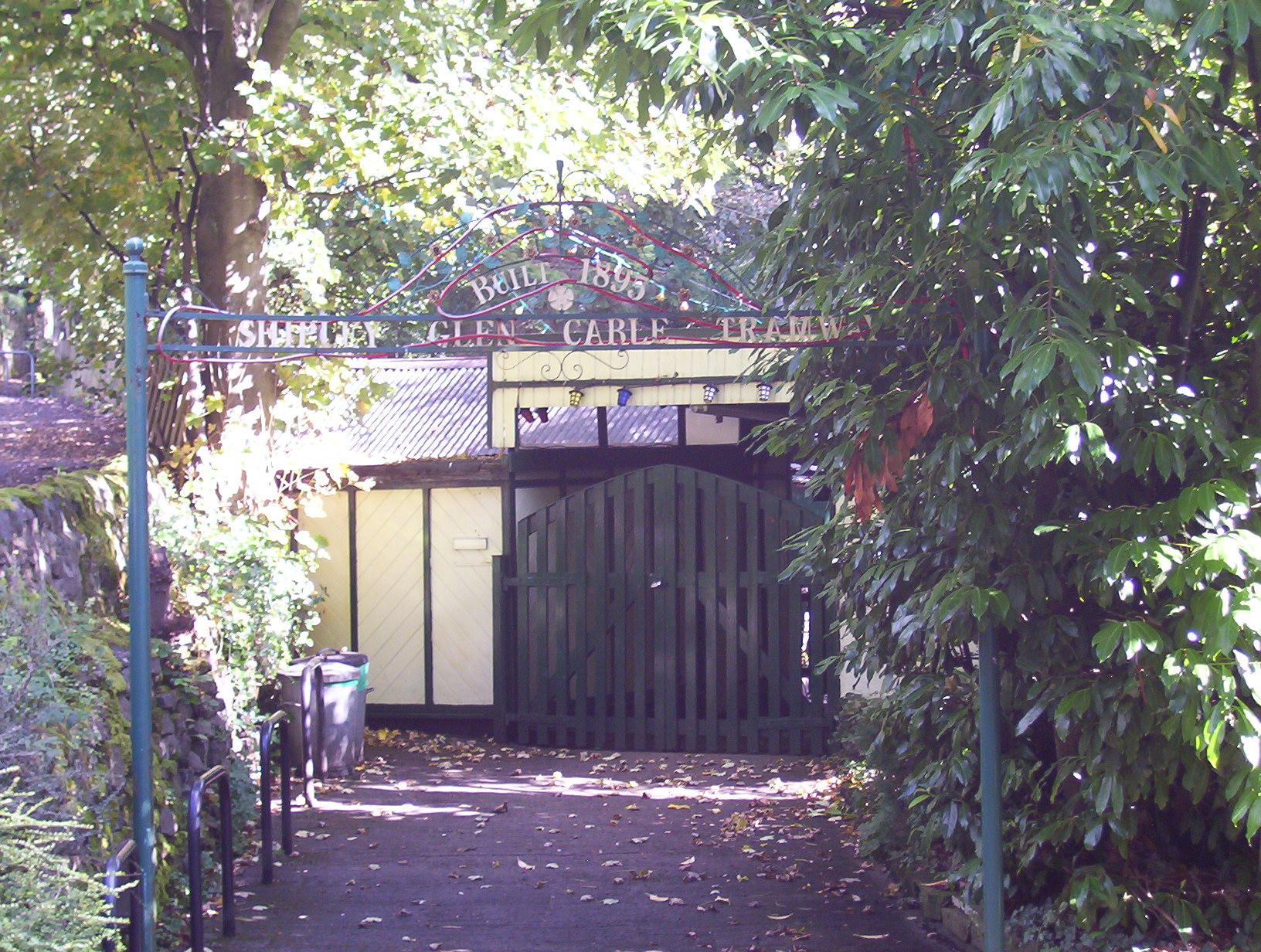 The top entrance to Shipley Glen Tramway in Bradford.